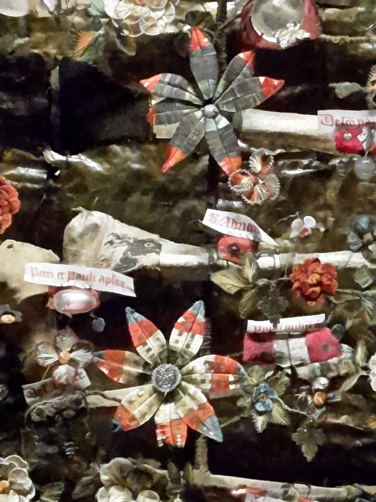 Silk flowers of Bentlager Reliquary shrine of 1499. A reliquiary in the shape of a paradise garden. Hosting 46 named and further anonym relics.